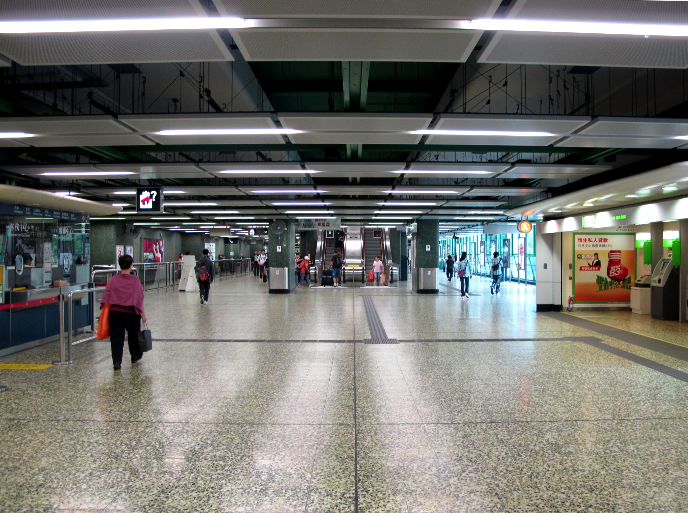 Chai Wan Station Concourse